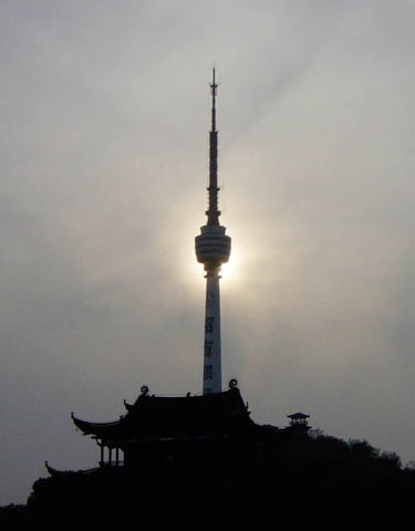 Wuhan's modern television antenna tower stands well beyond Turtle Hill and its temple. Taken September 22, 2002 from the riverboat cruise ship M.V. Splendid China while waiting at Wuhan to begin a cruise up the Yangtze River (Chang Jiang) through the Three Gorges to the metropolis of Chongqing. To the photographer User:Leonard G., this image is emblematic of modern China and is one of his favorites from a 2002 tour.